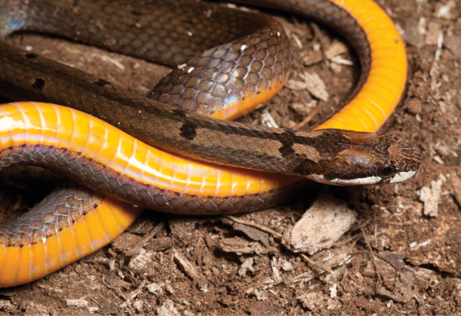 Closeup of Hologerrhum philippinum (KU 33056) illustrating details of head scalation and color, and vibrant yellow ventral coloration. Photo: RMB.